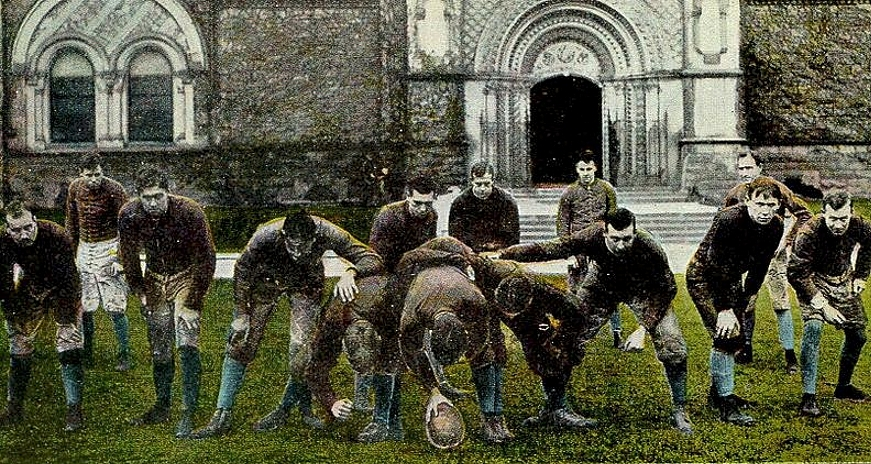 Postcard of Toronto Varsity Rugby Team, Champions of Canada.